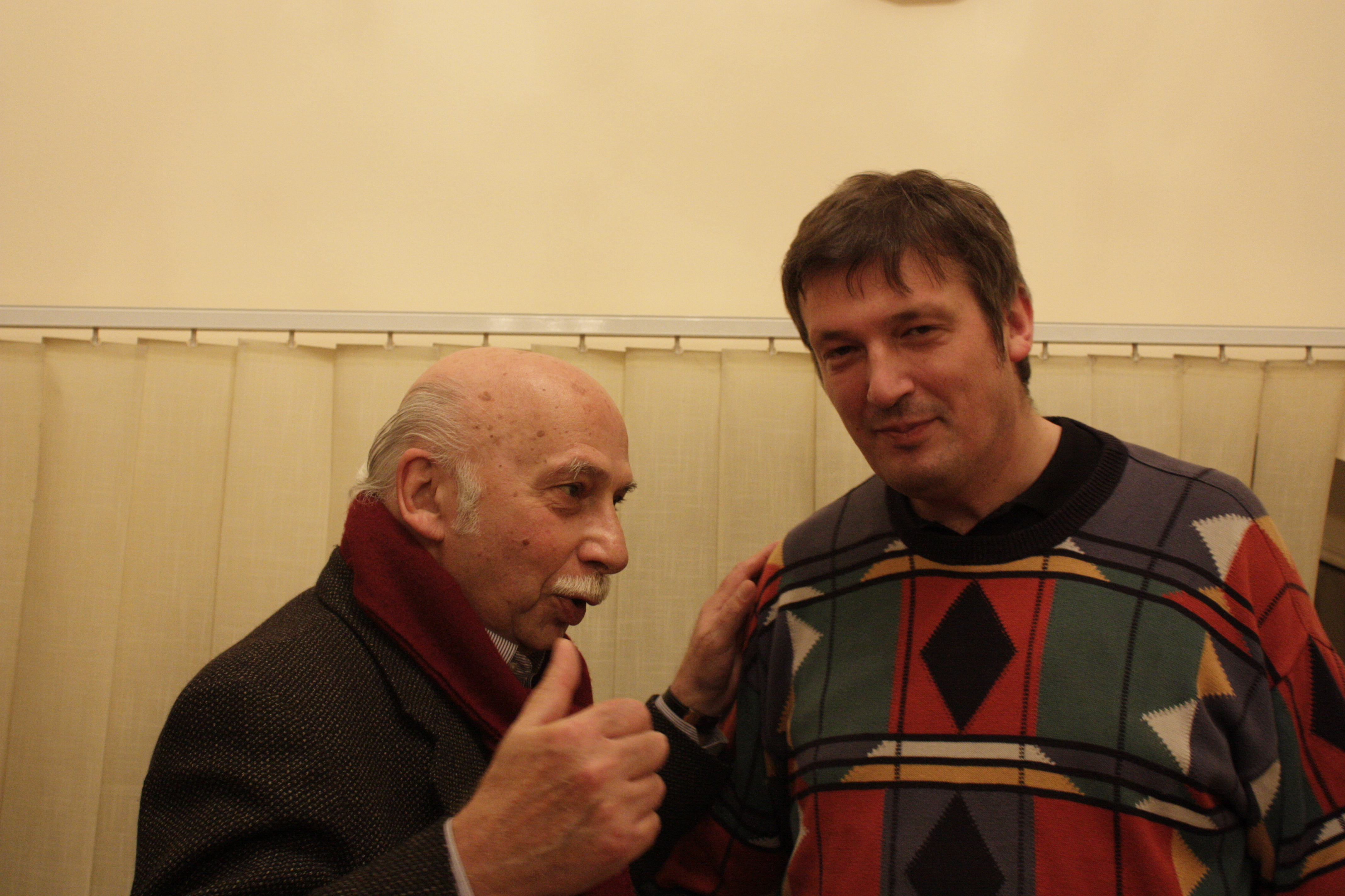 Georgian composer Gia Kancheli & Boris Berezovski in Tbilisi, after the concert in Tbilisi State Conservatory